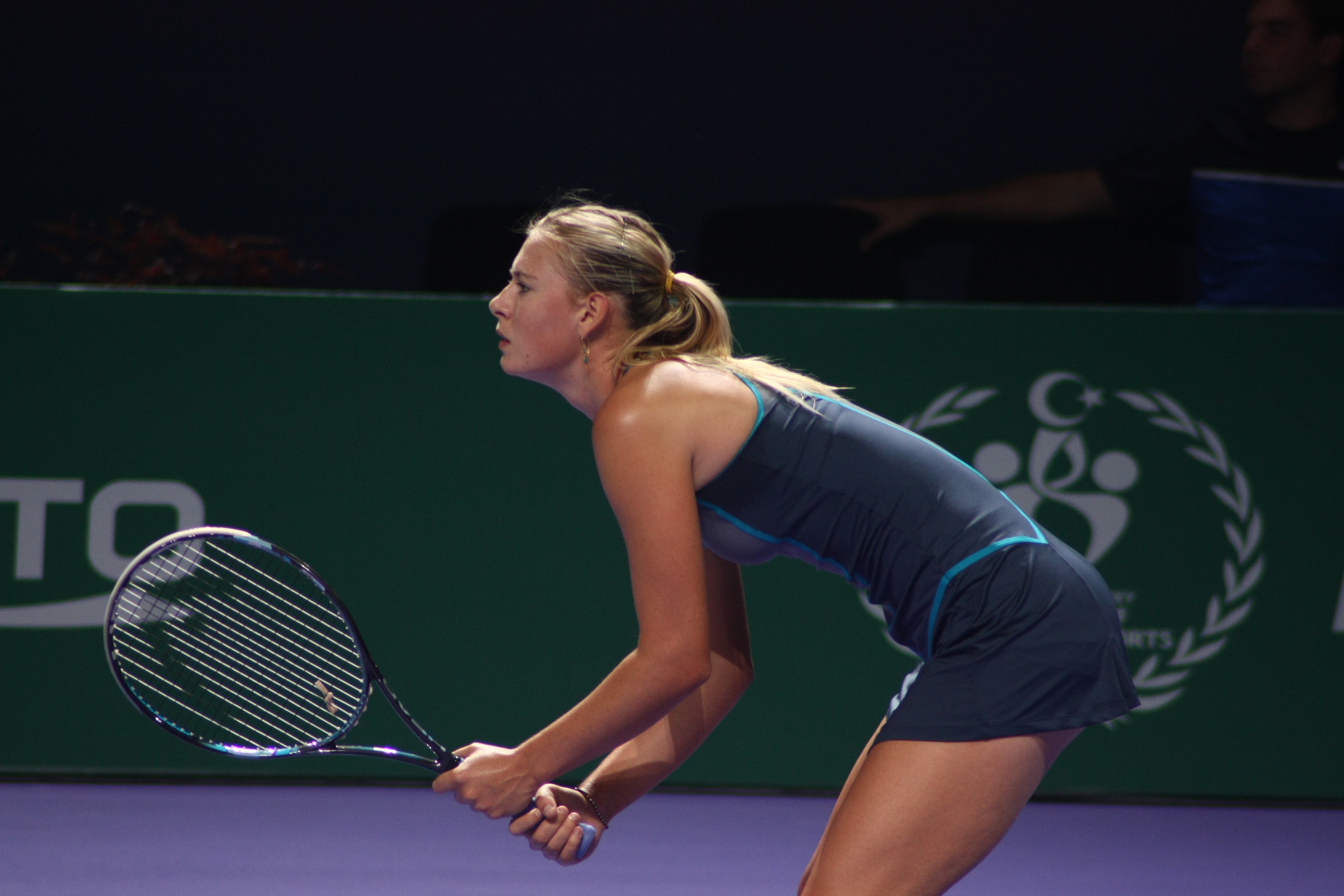 Maria SHARAPOVA in Istanbul 2011 WTA Championship